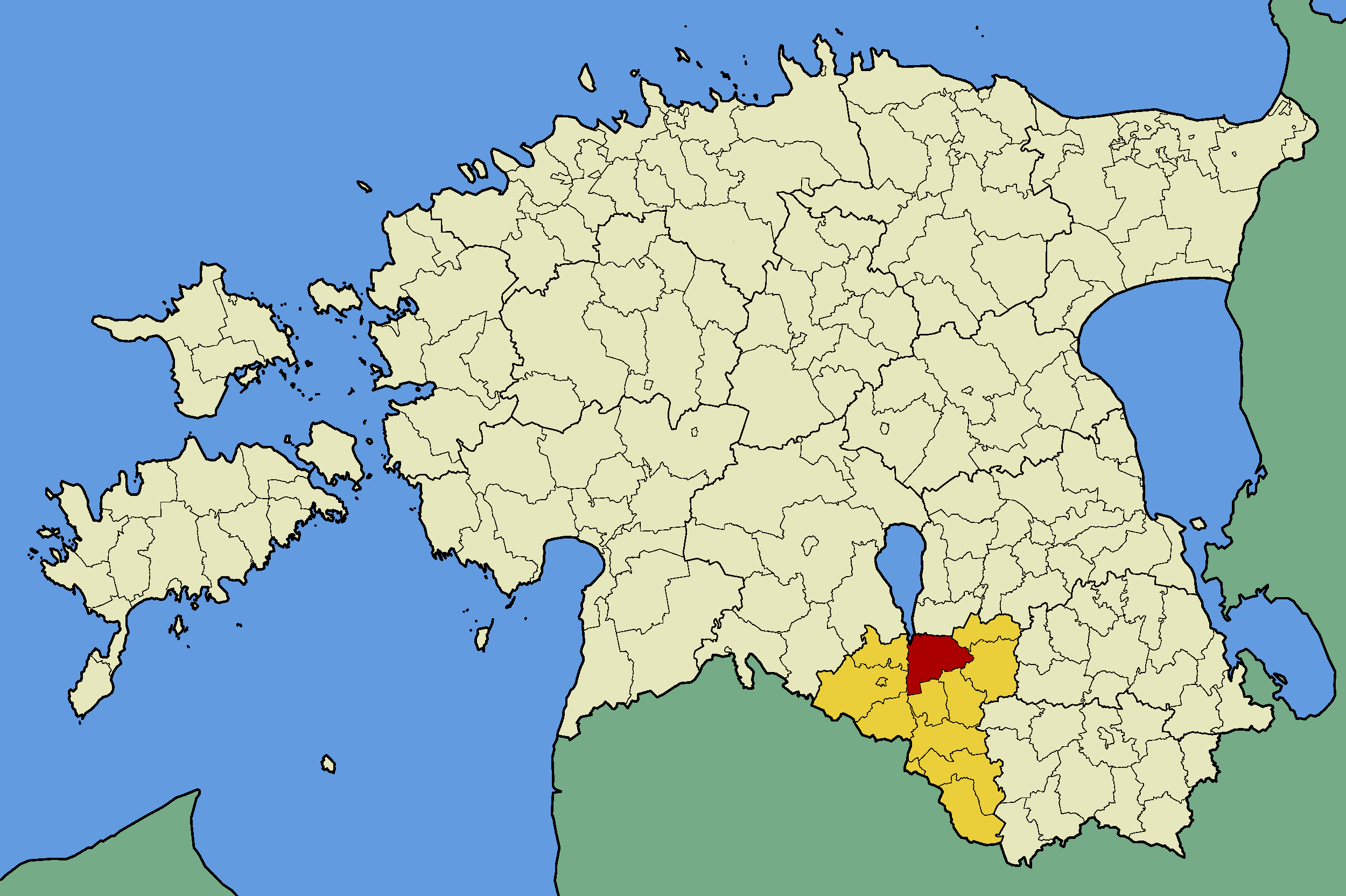 Map of Estonia with borders of municipalities (parishes). Valga county and Puka municipality emphasized.